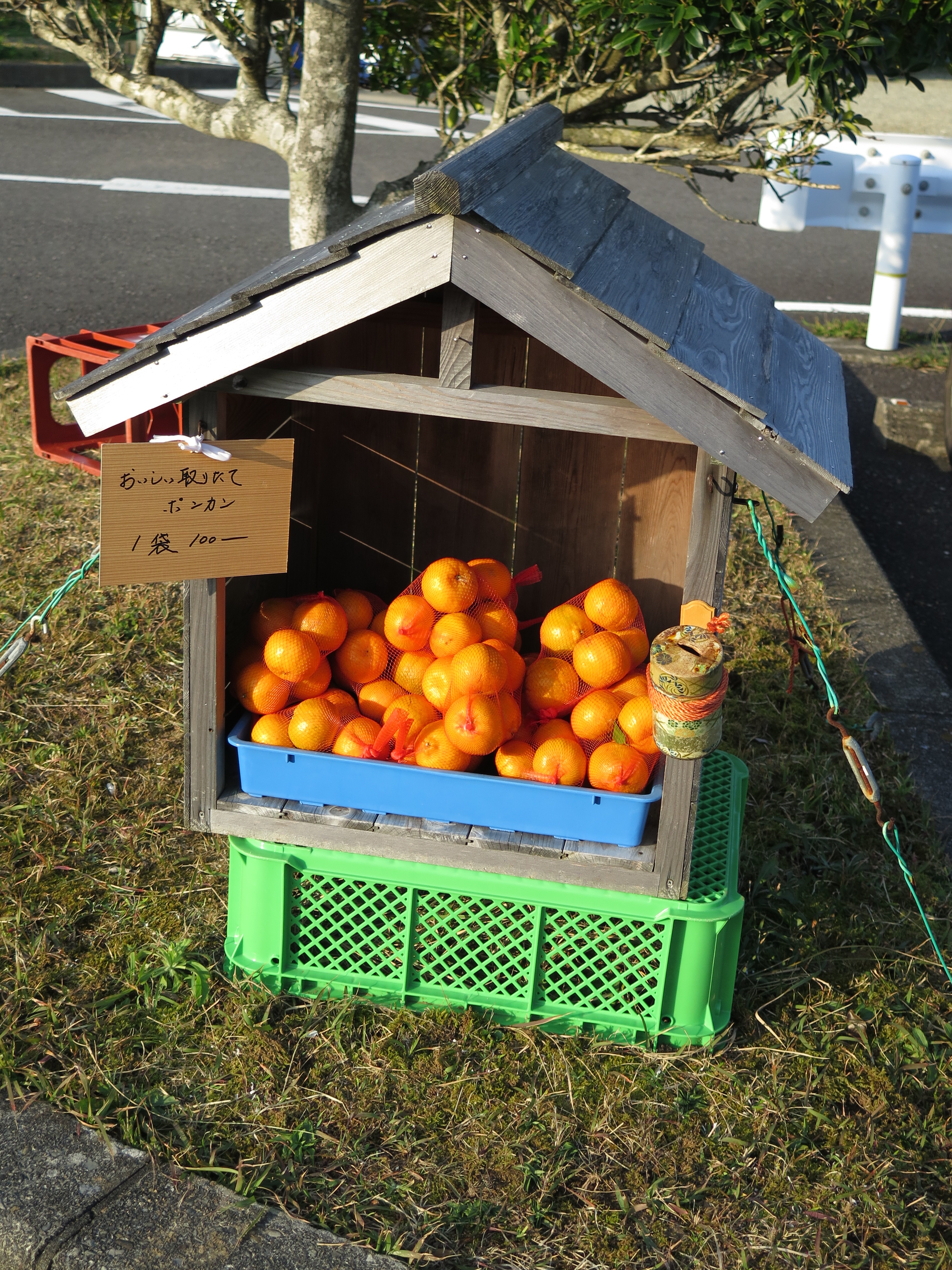 Bags of ponkans (mandarin oranges) for sale. Shionomisaki, Wakayama, Japan.